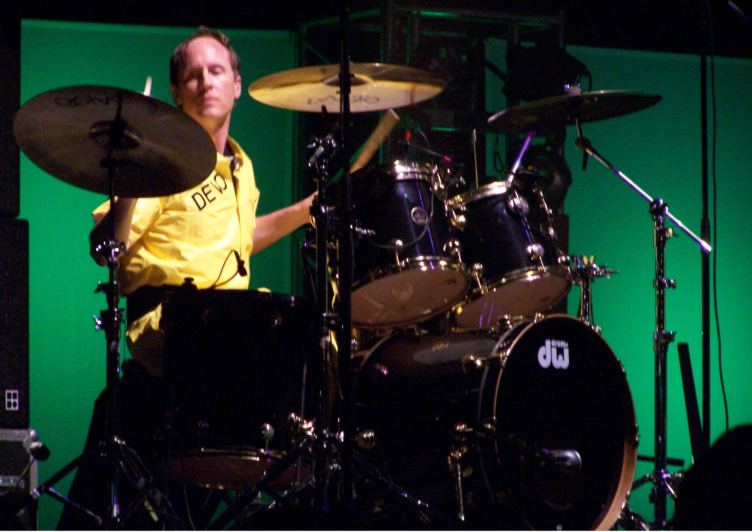 Devo at BofA Pavilion, Boston